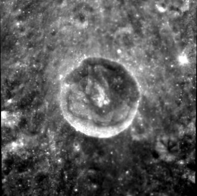 Izsak lunar crater - Clementine image